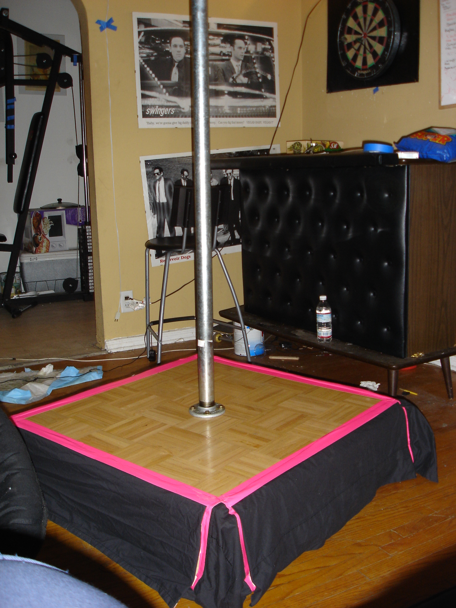 Author: Duy Le UCLA made stripper pole